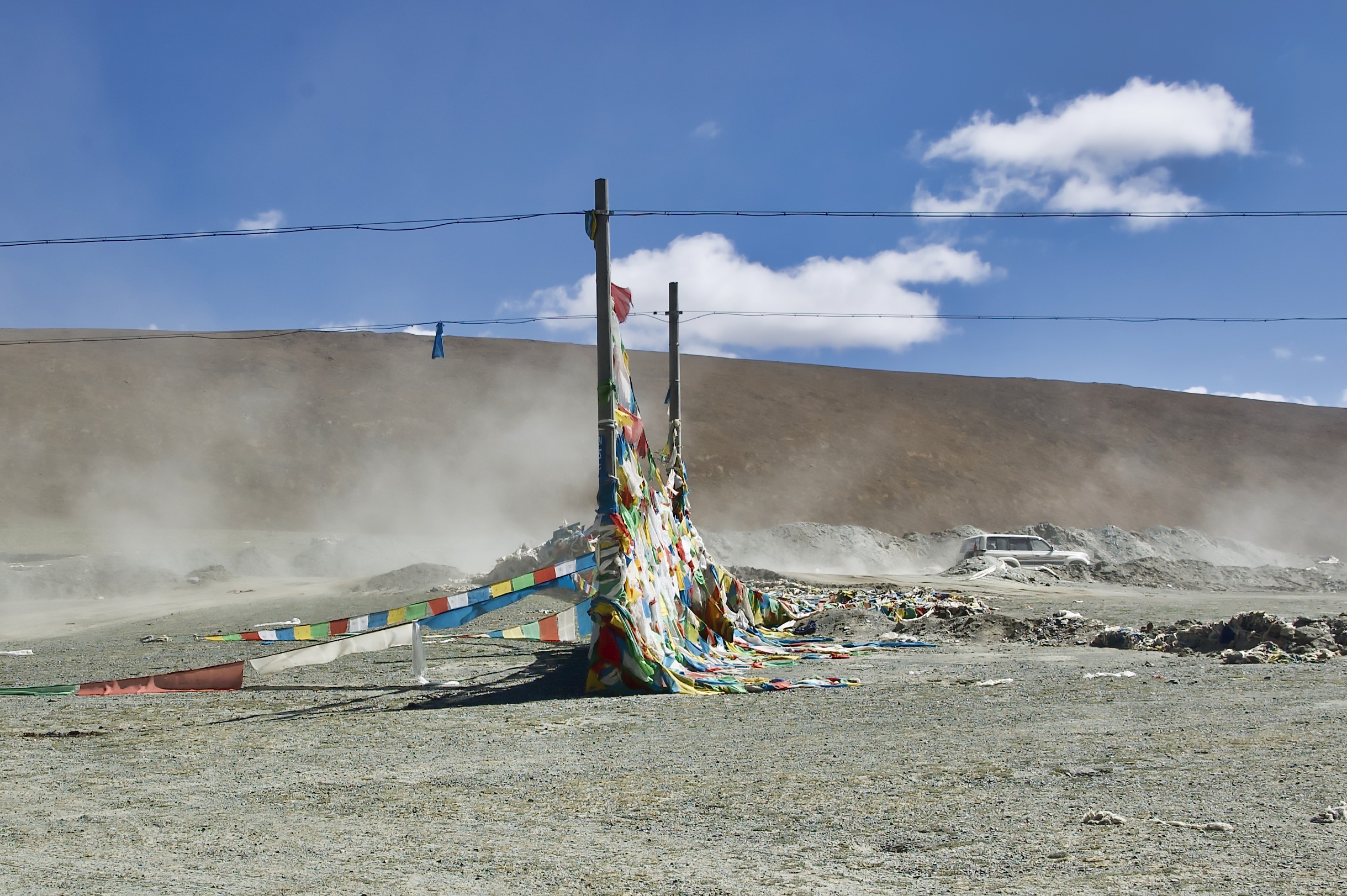 Mayum La (Pass, 5.225 m), eastern limit of West Tibet, in june 2010